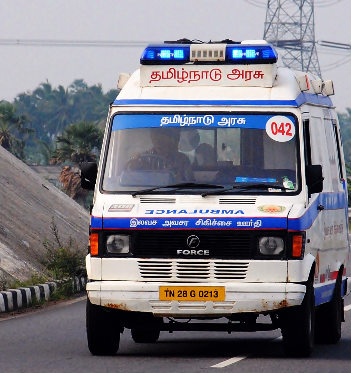 The 108 Ambulance of TamilNadu on an emergency duty.